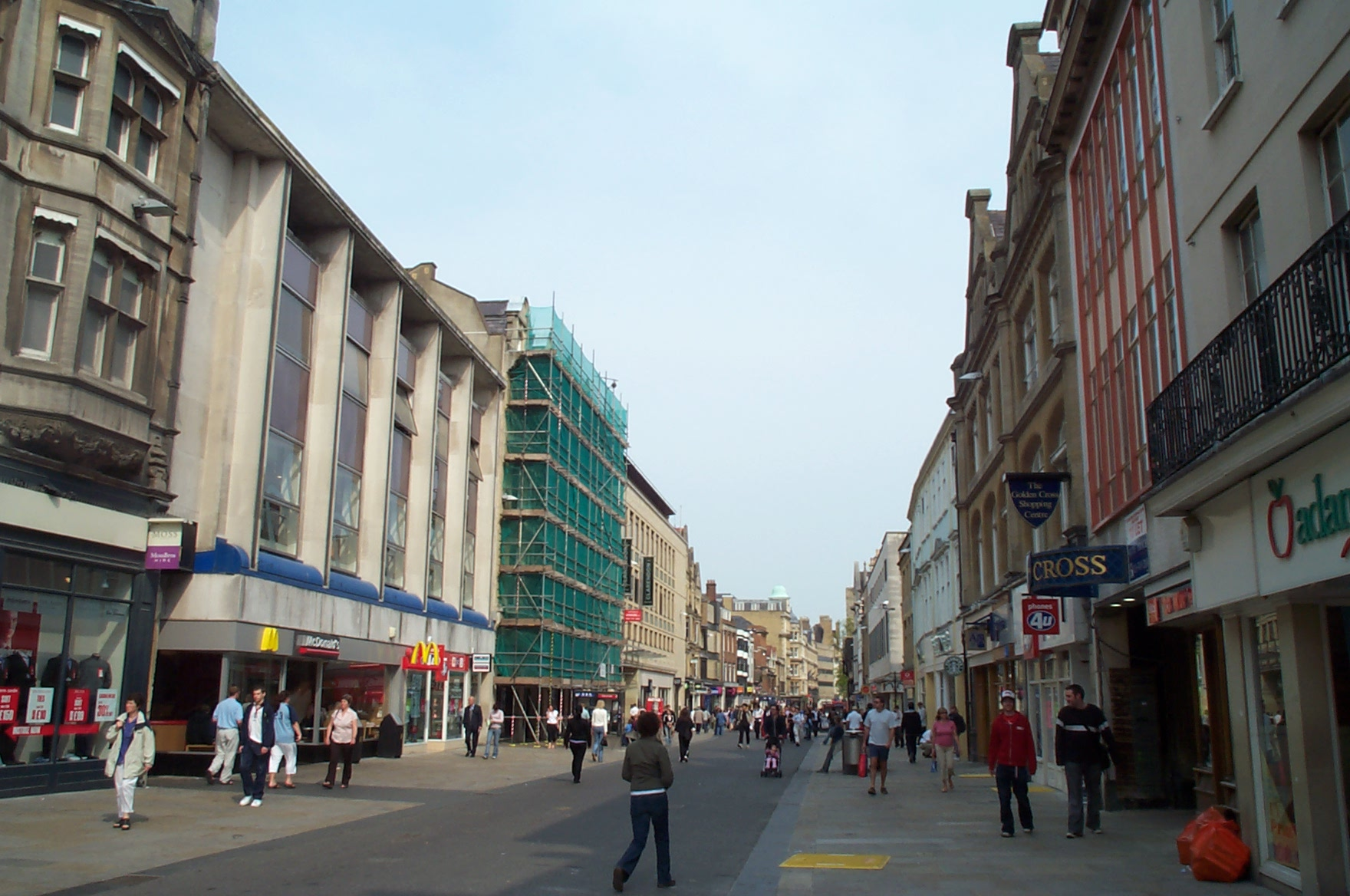 Cornmarket Street, Oxford, England: view looking north from Carfax towards Magdalen Street. The building on the left with vertical concrete fins was completed in 1963 for Littlewood's Stores.